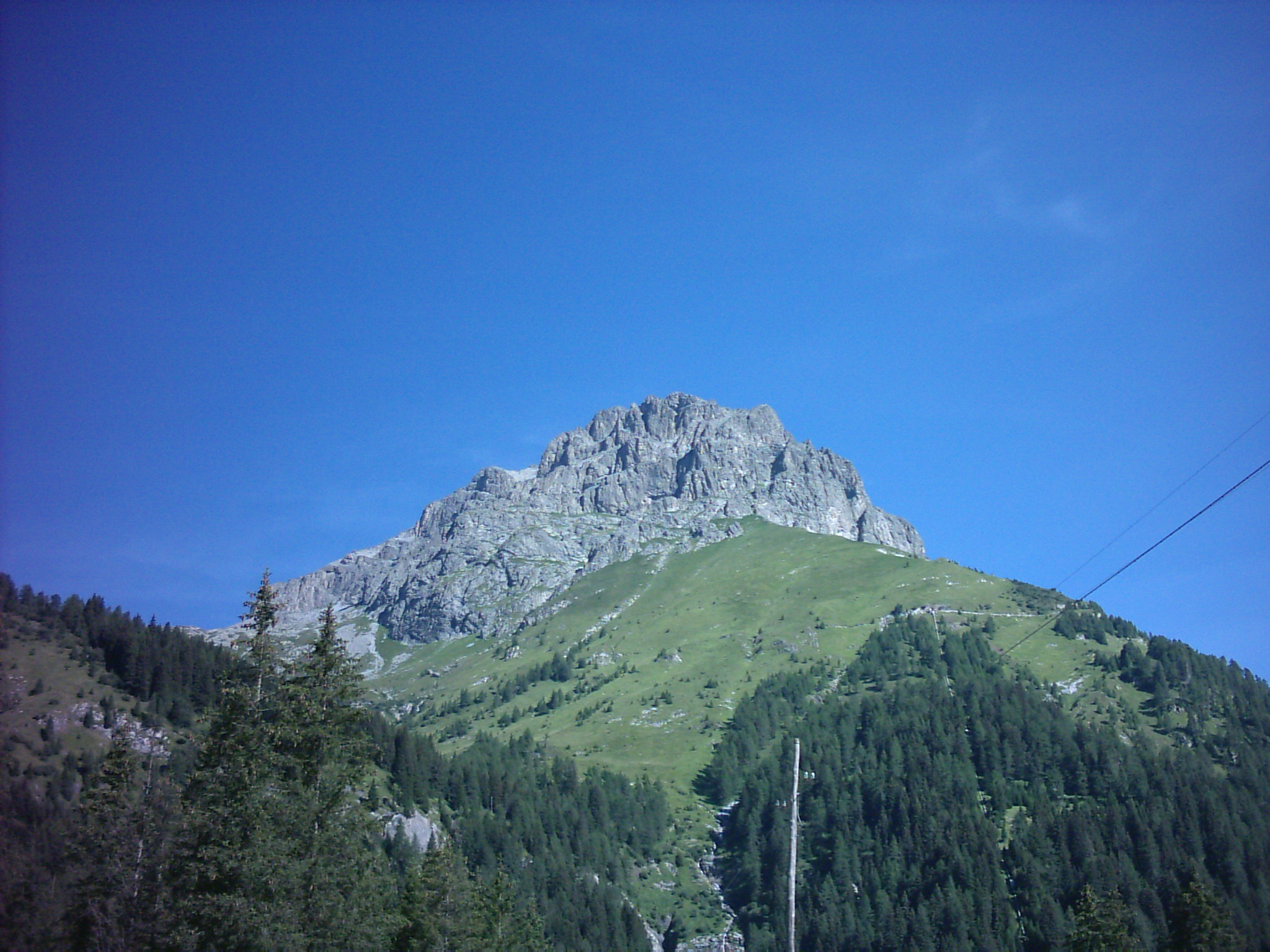 Adamello mountains: Cornone di Blumone (2843 mt.), the southernmost summit of the range.